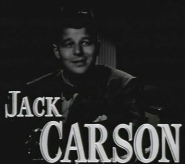 Cropped screenshot of Jack Carson from the film Mildred Pierce